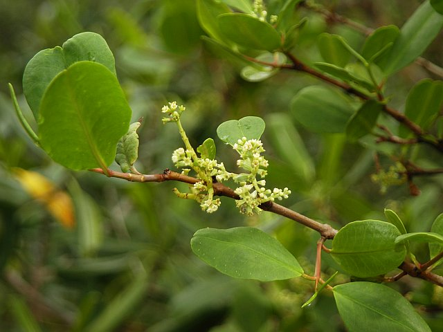 Flowering shoot of Laguncularia racemosa; mangroves in Caeté estuary, Bragança, Pará, Brazil